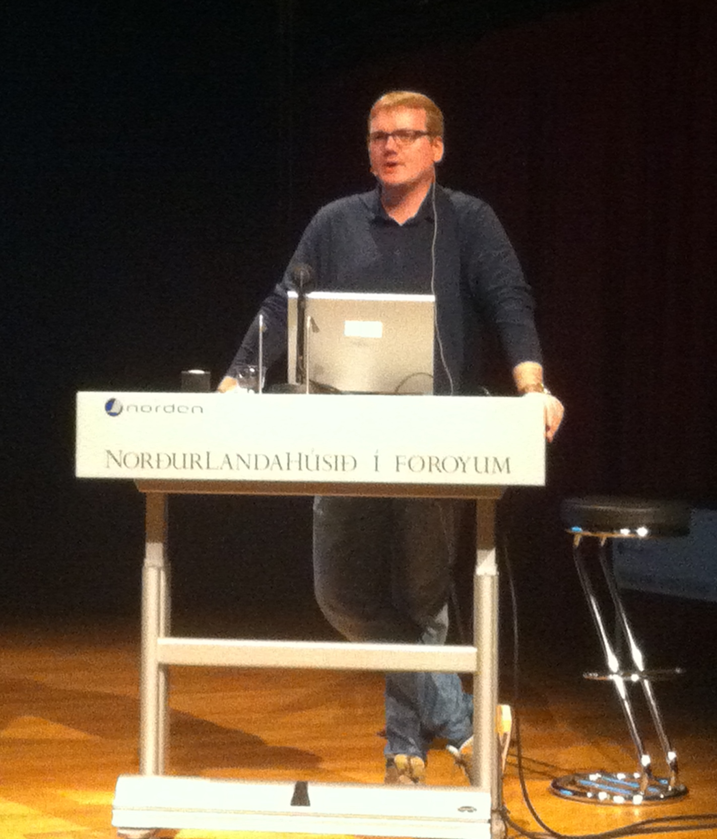 Eiler Fagraklett from the Faroe Islands. Here in the Nordic House in Tórshavn.